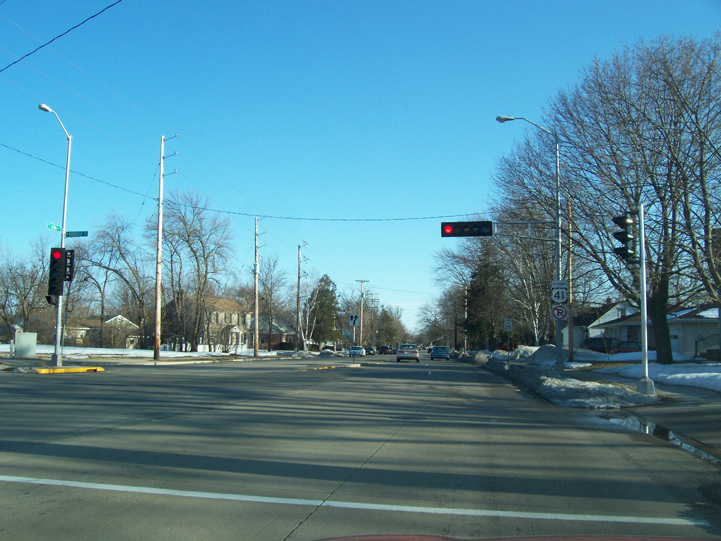 Looking south at the eastern terminus of Wisconsin Highway 21 while traveling on U.S. Route 45 in Oshkosh, Wisconsin. U.S. Route 45 is left and behind the photographed location.